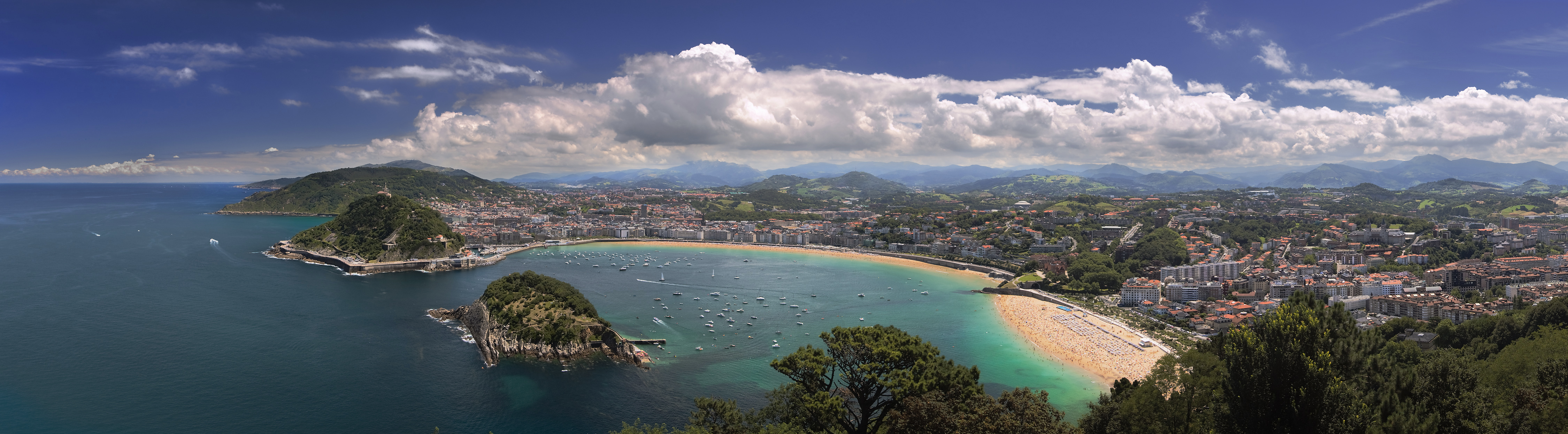 The city of Donostia from top of mount Igeldo.